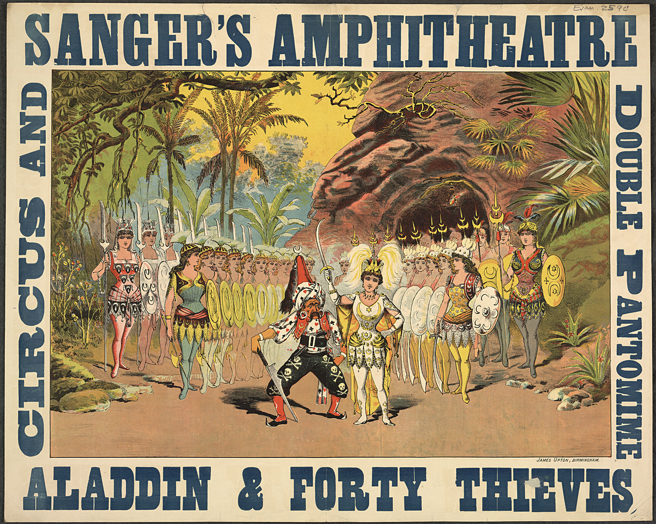 Sanger's Amphitheatre poster A poster for a performance of Aladdin and the forty thieves, a pantomime written and produced by Robert Reece (1838-1891) at Sanger's Amphitheatre in London.